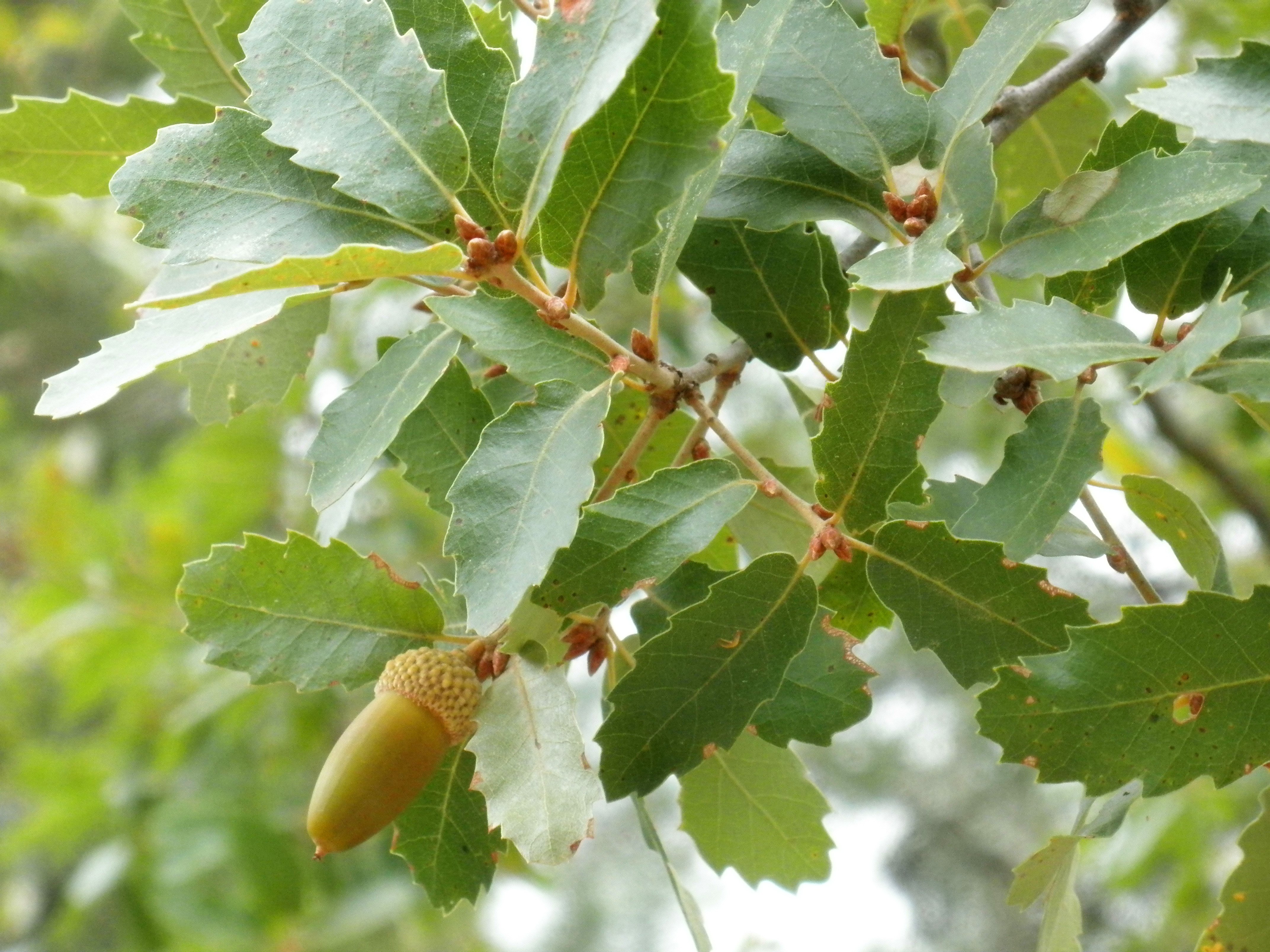 Quercus canariensis close up, Sierra Madrona, Spain